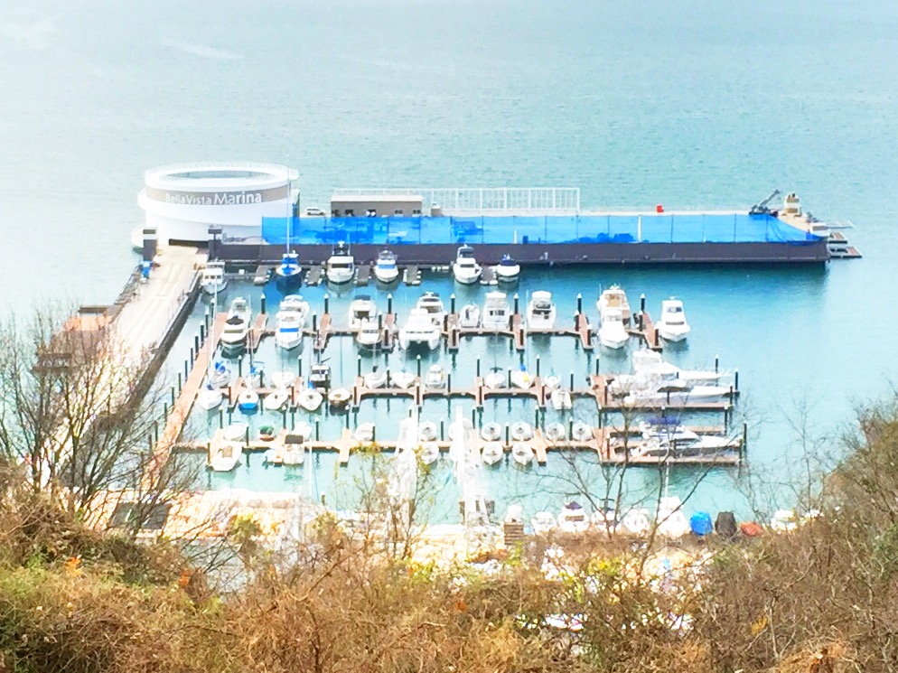 bellavista-marina onomichi hiroshima JAPAN